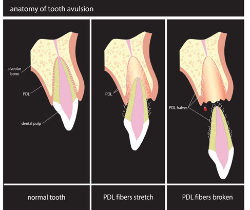 Diagram showing the way a tooth looks like when it is knocked out of it socket